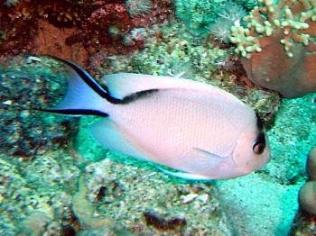 Female Genicanthus caudovittatus